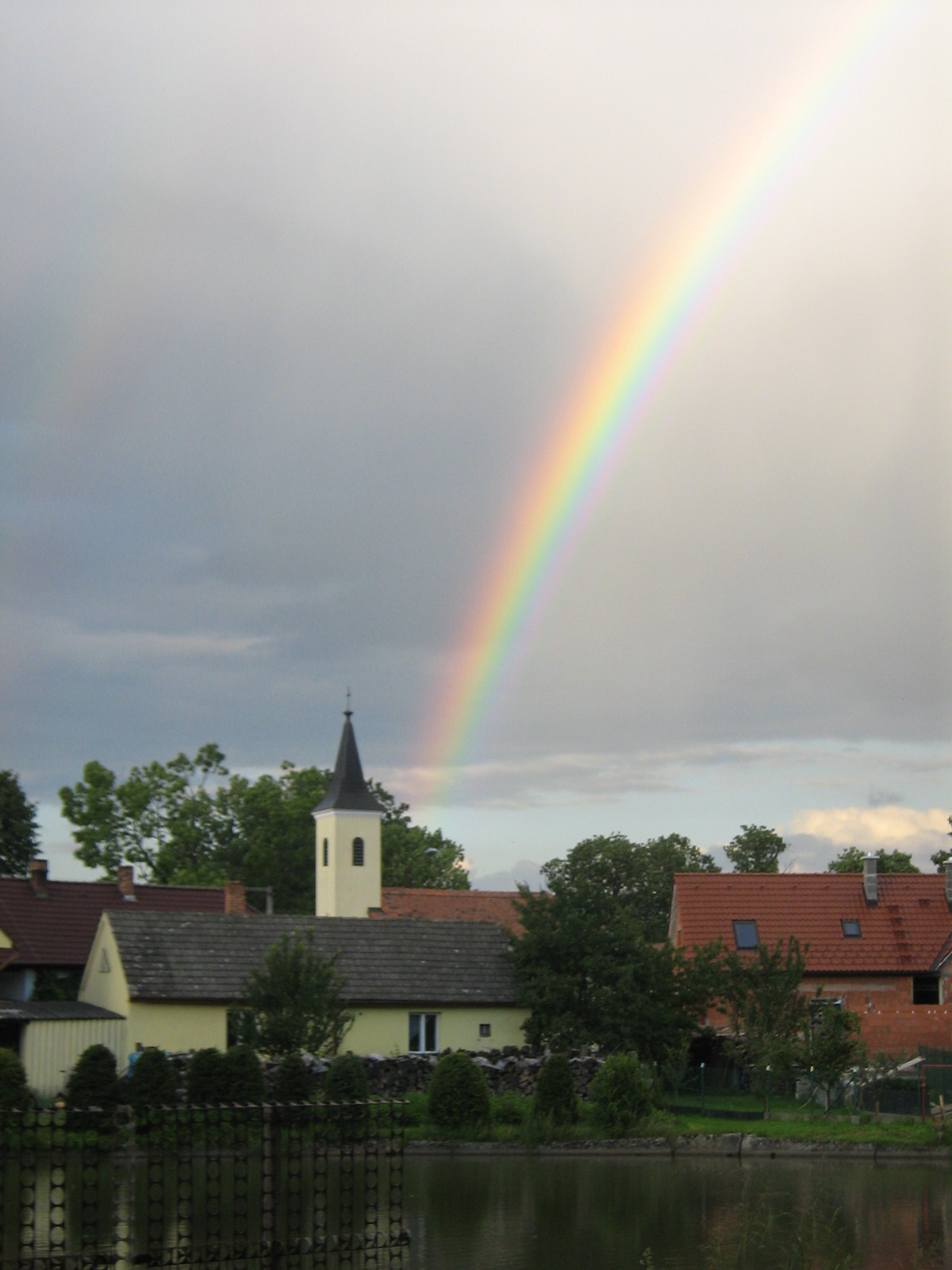 Branná